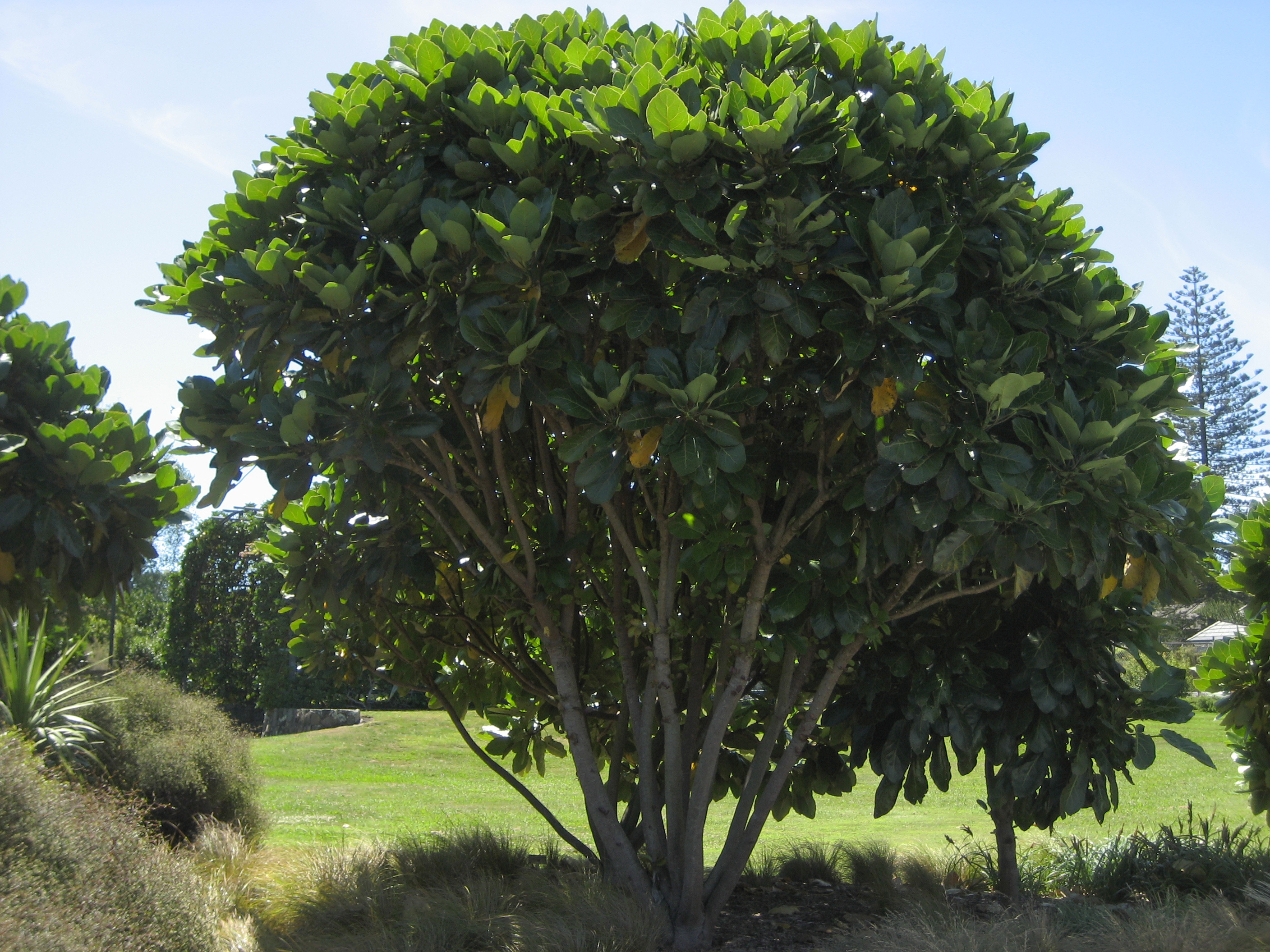 Puka tree (Meryta sinclairii), specimen growing in cultivation at Manukau City, New Zealand